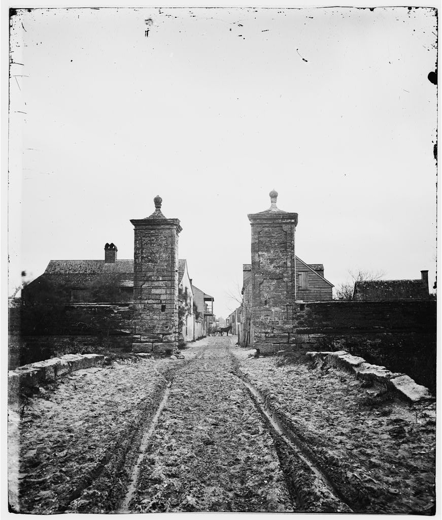 City Gates, Looking up St. George Street, St. Augustine, Florida